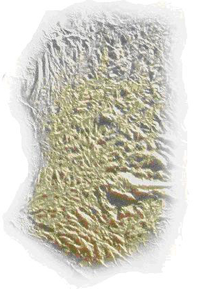 Antonio Papasso-primo PAPIER FROISSE' anno 1975